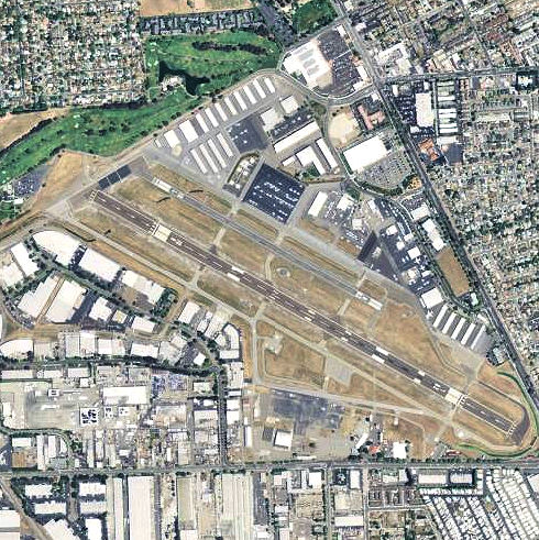 USGS digital orthophoto of Hayward Executive Airport in California